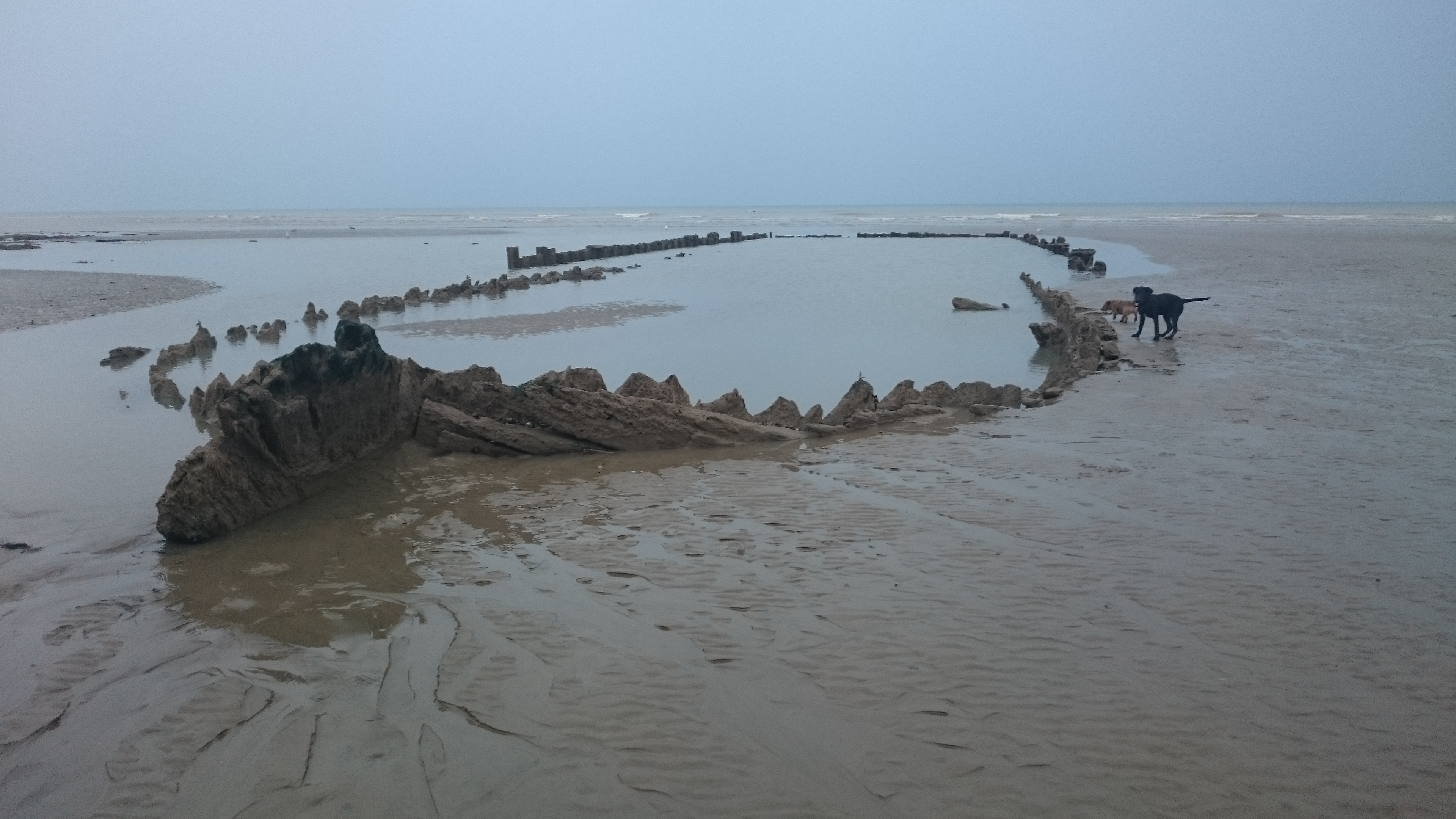 The wreck of the VOC Amsterdam as seen at low tide on the beach at Bulverhythe, St. Leonards-on-sea.